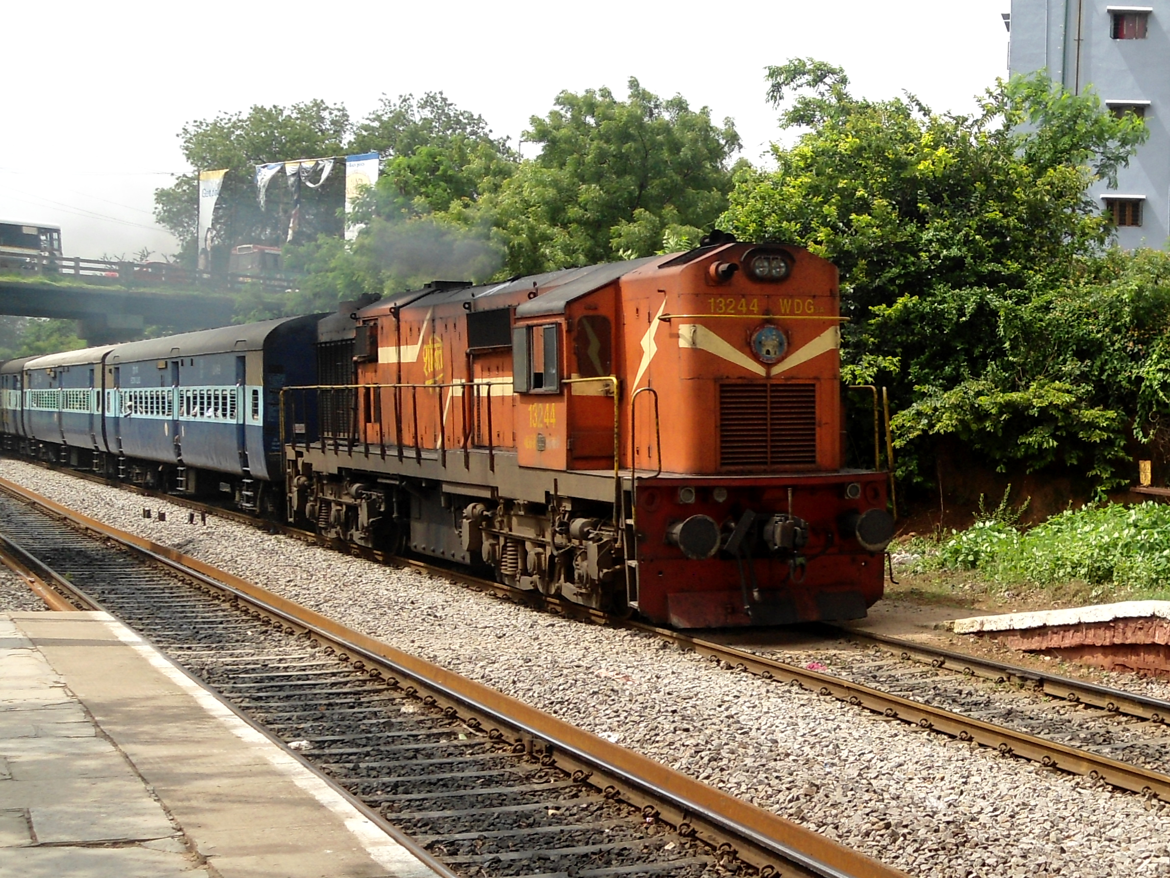 KCG-Nizamabad Passenger with WDG-3A loco (13244) at Alwal railway station, Hyderabad